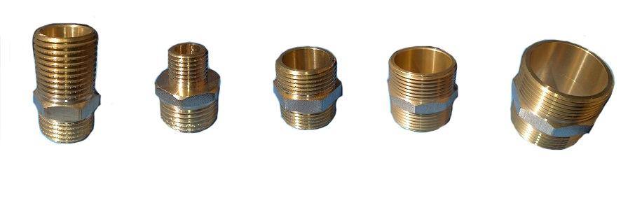 nipple